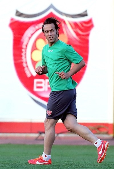 حضور علی کریمی در تمرین تیم فوتبال پرسپولیس